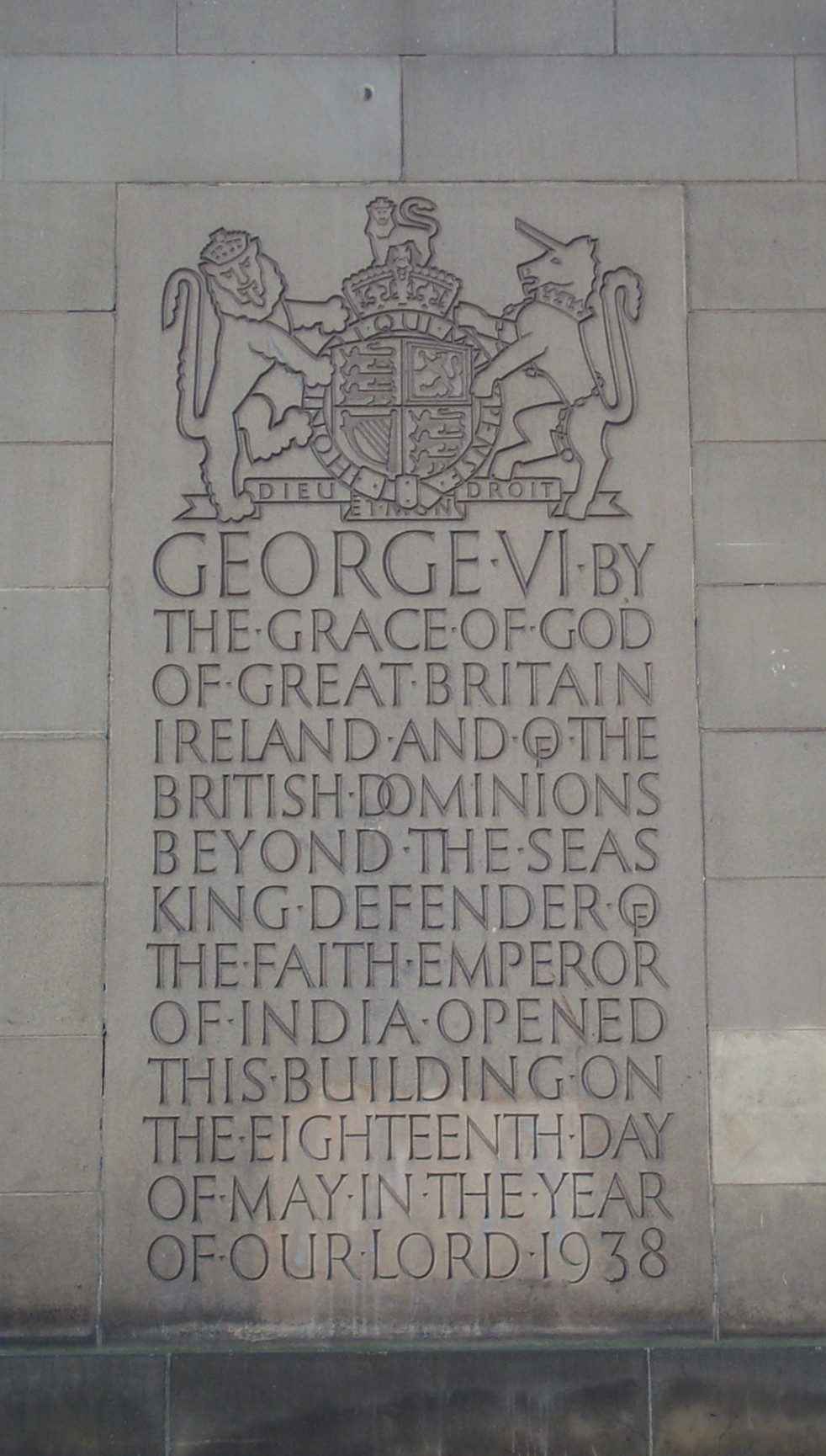 A plaque on the Manchester Town Hall records George VI's titles before the abolishing of the title of Emperor of India. Photograph taken 2005-10-20. Copyright © 2005 Kaihsu Tai.